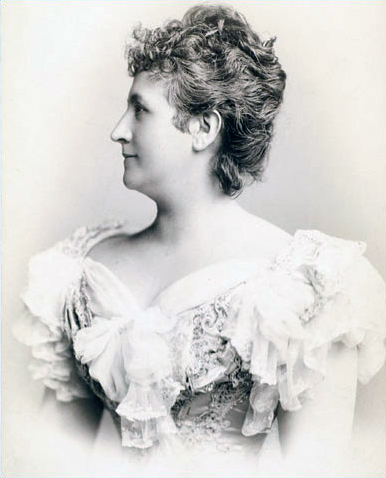 Photograph of Teresa Carreño, Venezuelan pianist, in Berlin, c. 1903